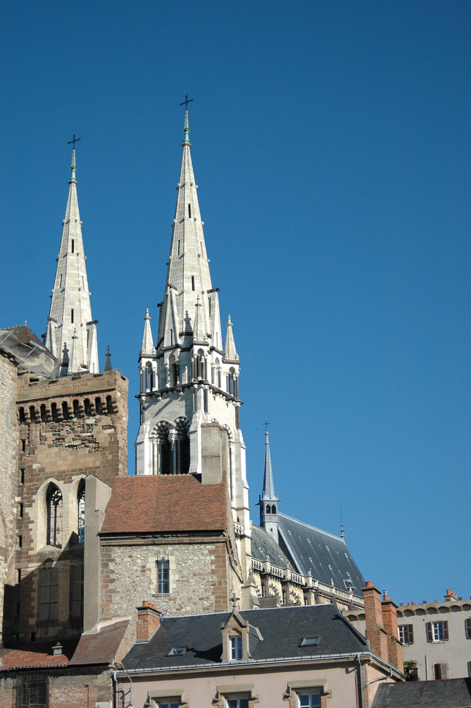 The cathedral and an old castle